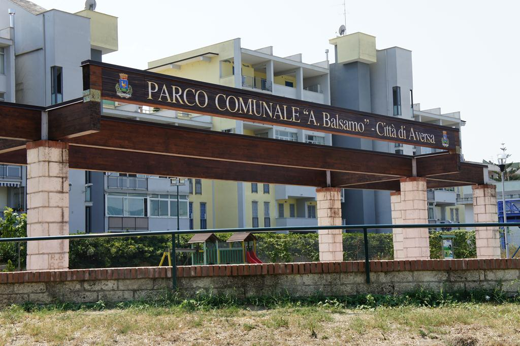 Picture about Balsamo Park, Aversa.